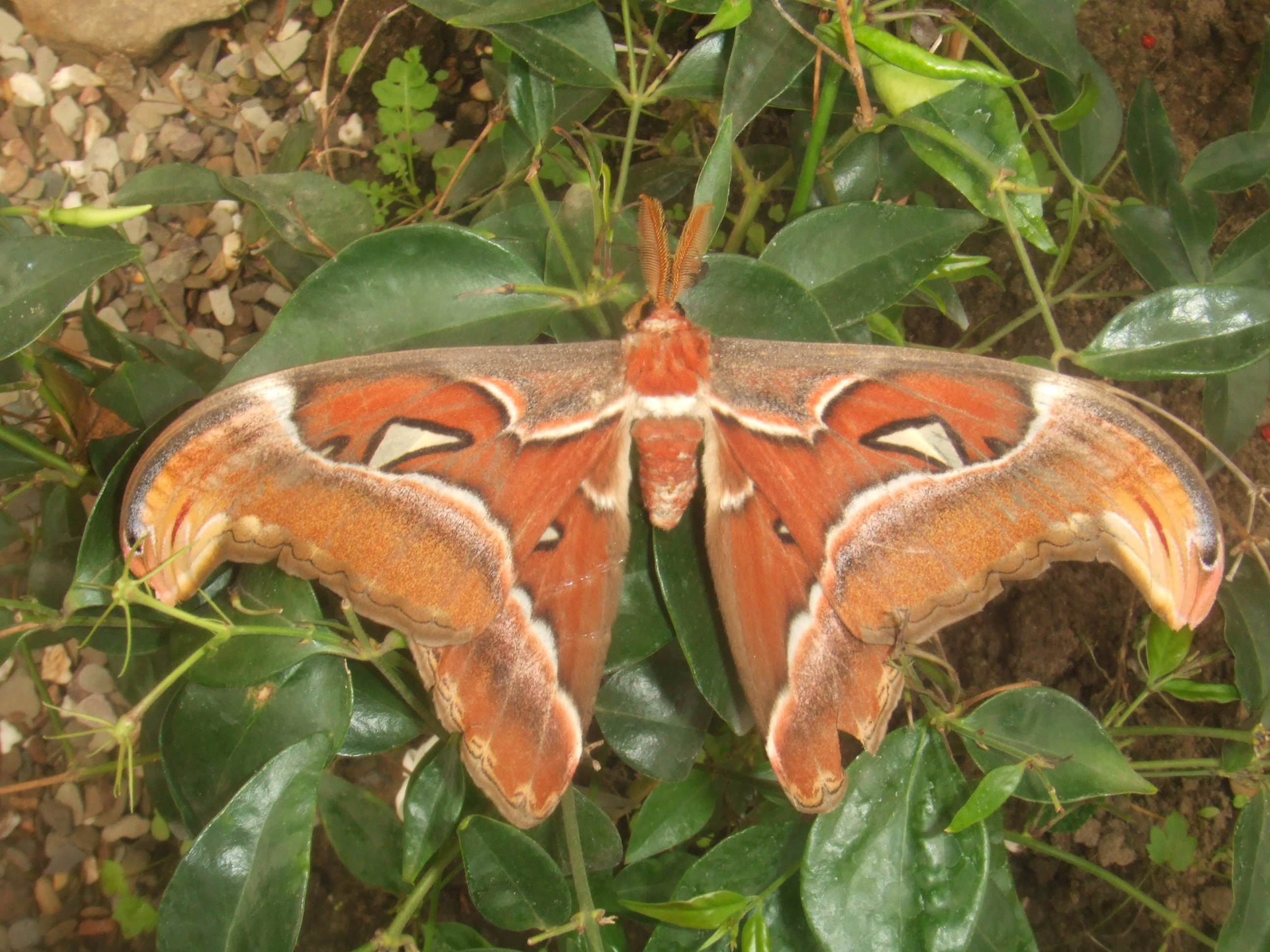 Attacus atlas, picture taken at the Passiflorahoeve in Harskamp, The Netherlands